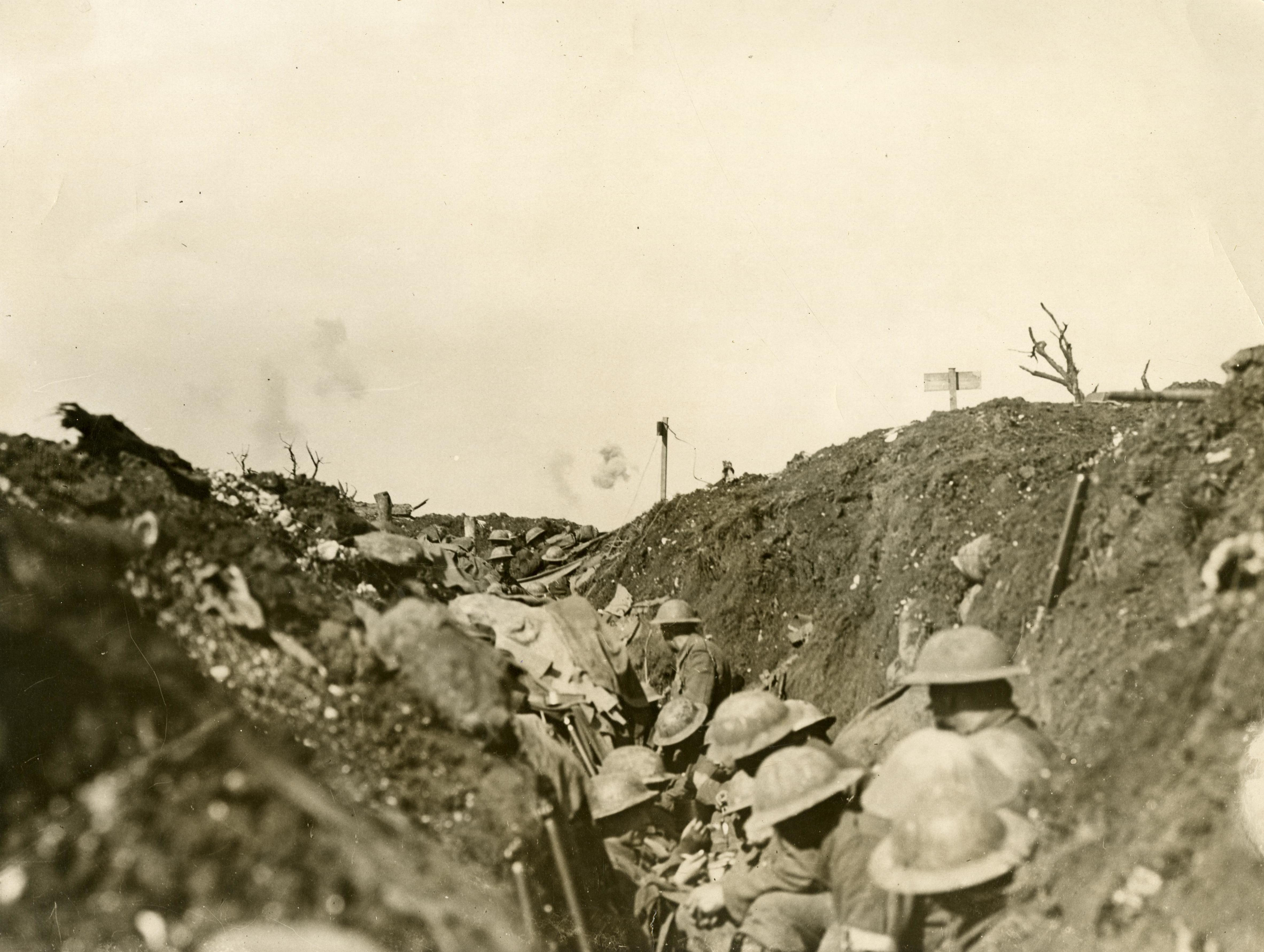 From the G. Harrisson Villett fonds, PR2004.0125/53.